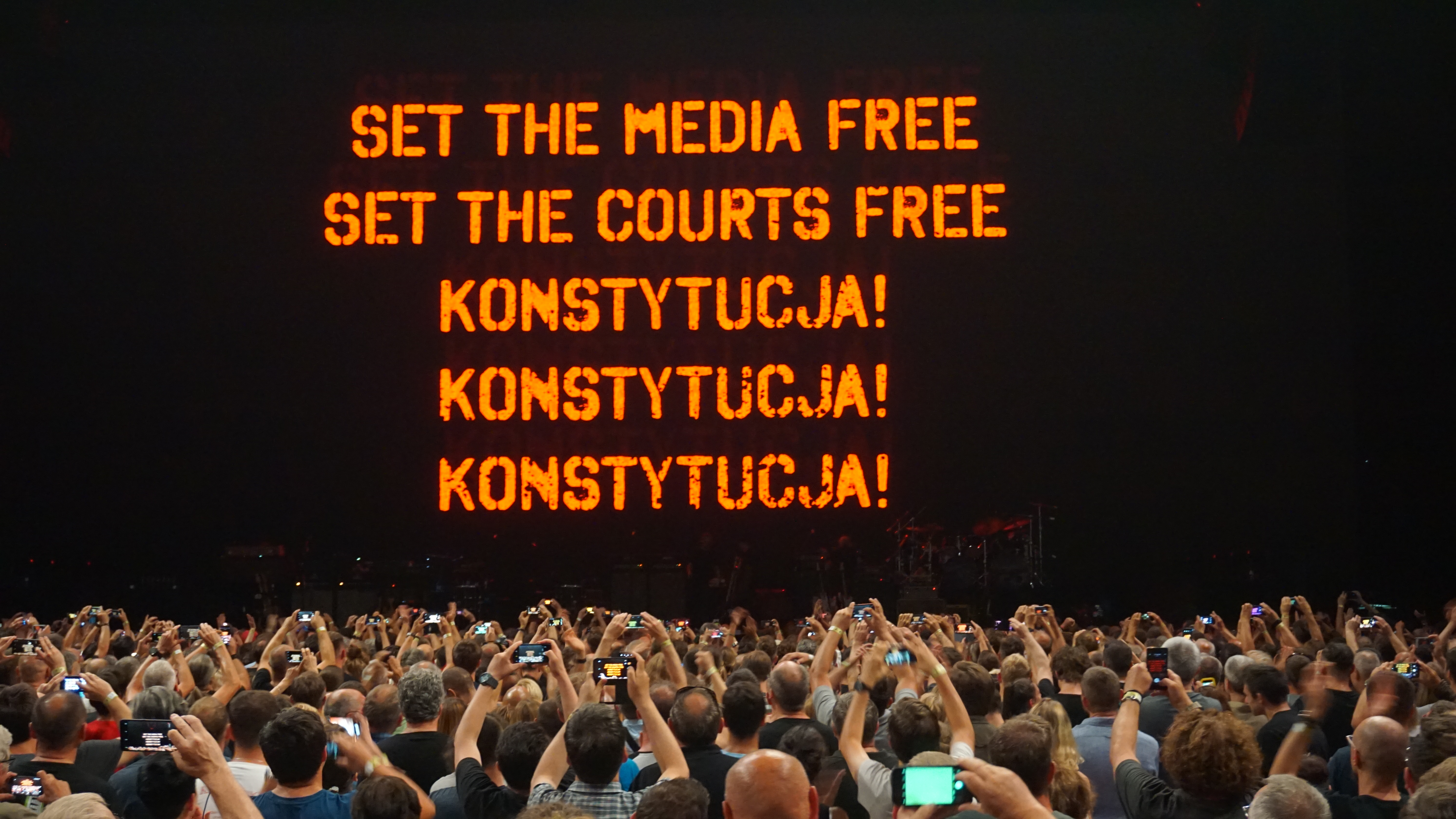 Quotes in defense of media freedom, court independence and constitution displayed during Roger Waters' concert in Gdańsk on August 5, 2018.